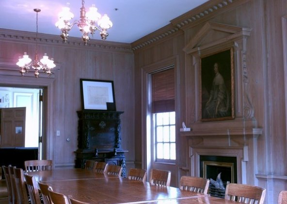 This is the Pine Room at Allerton House, located in Piatt County, IL.